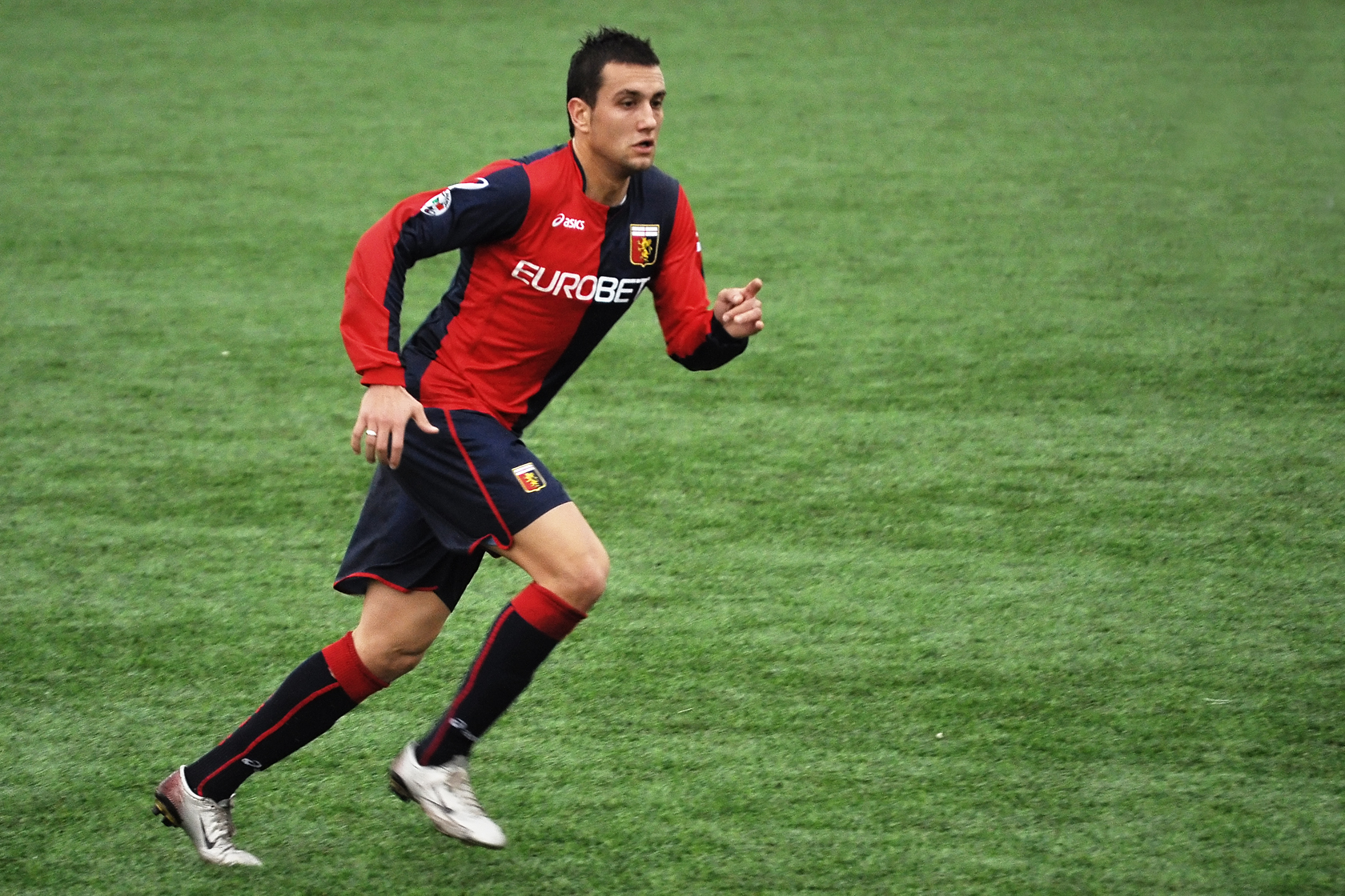 Serbian football player currently playing for Genoa and the Serbia national football team.